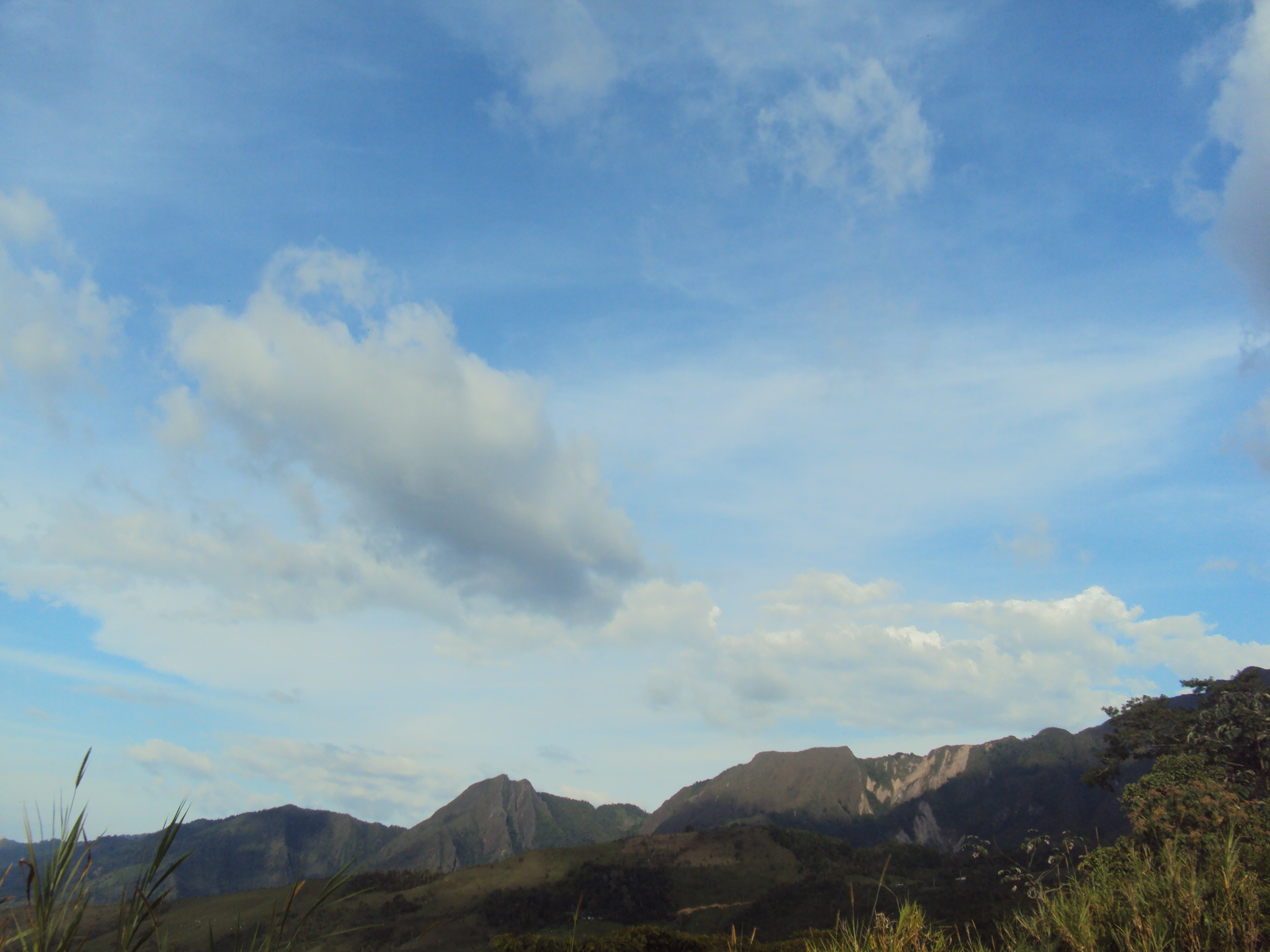 love is natural